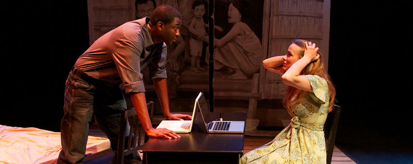 Jason and Ali talk over Skype in the Canadian play She Has a Name